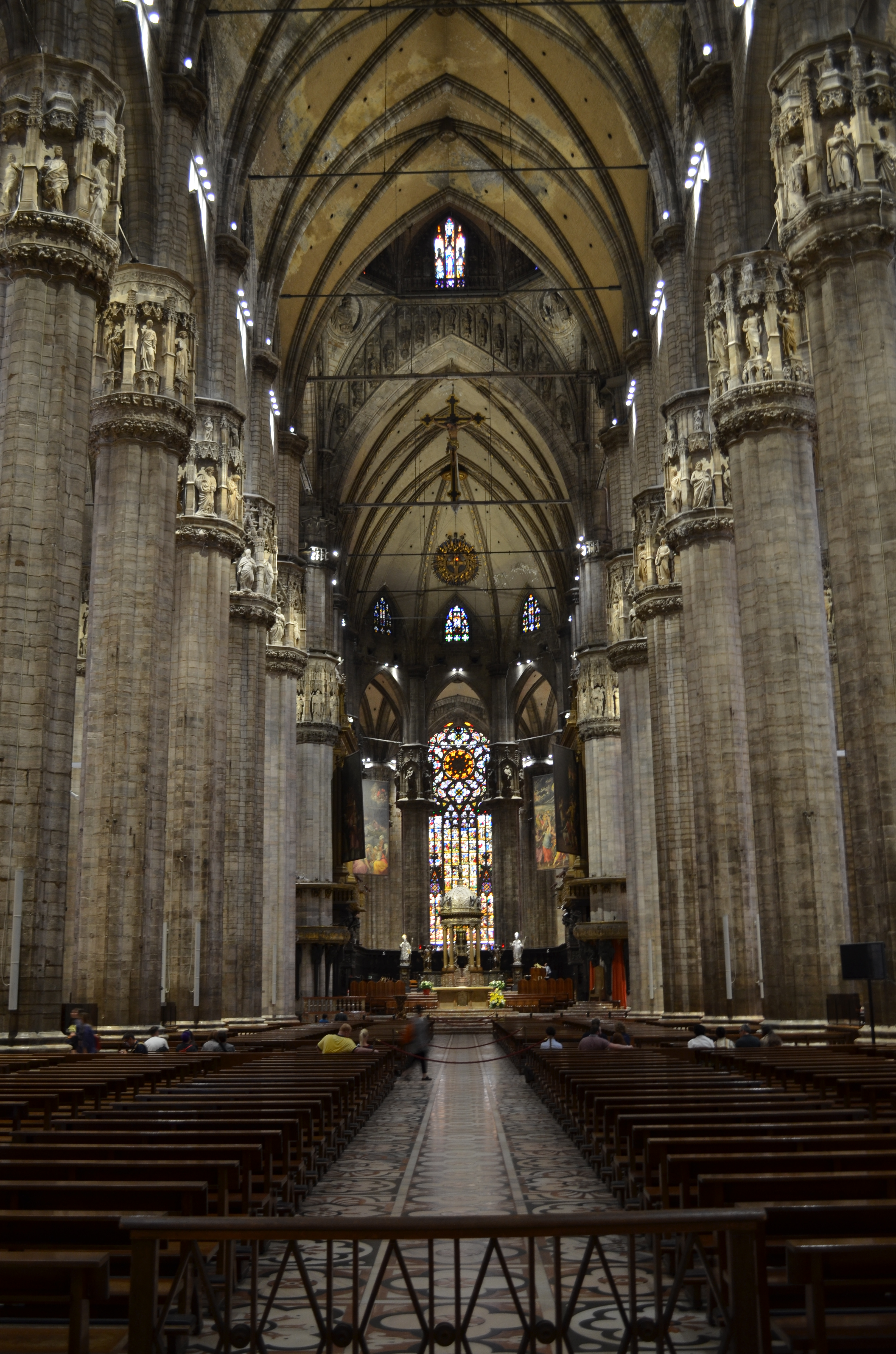 Interior of the Duomo (Milan)